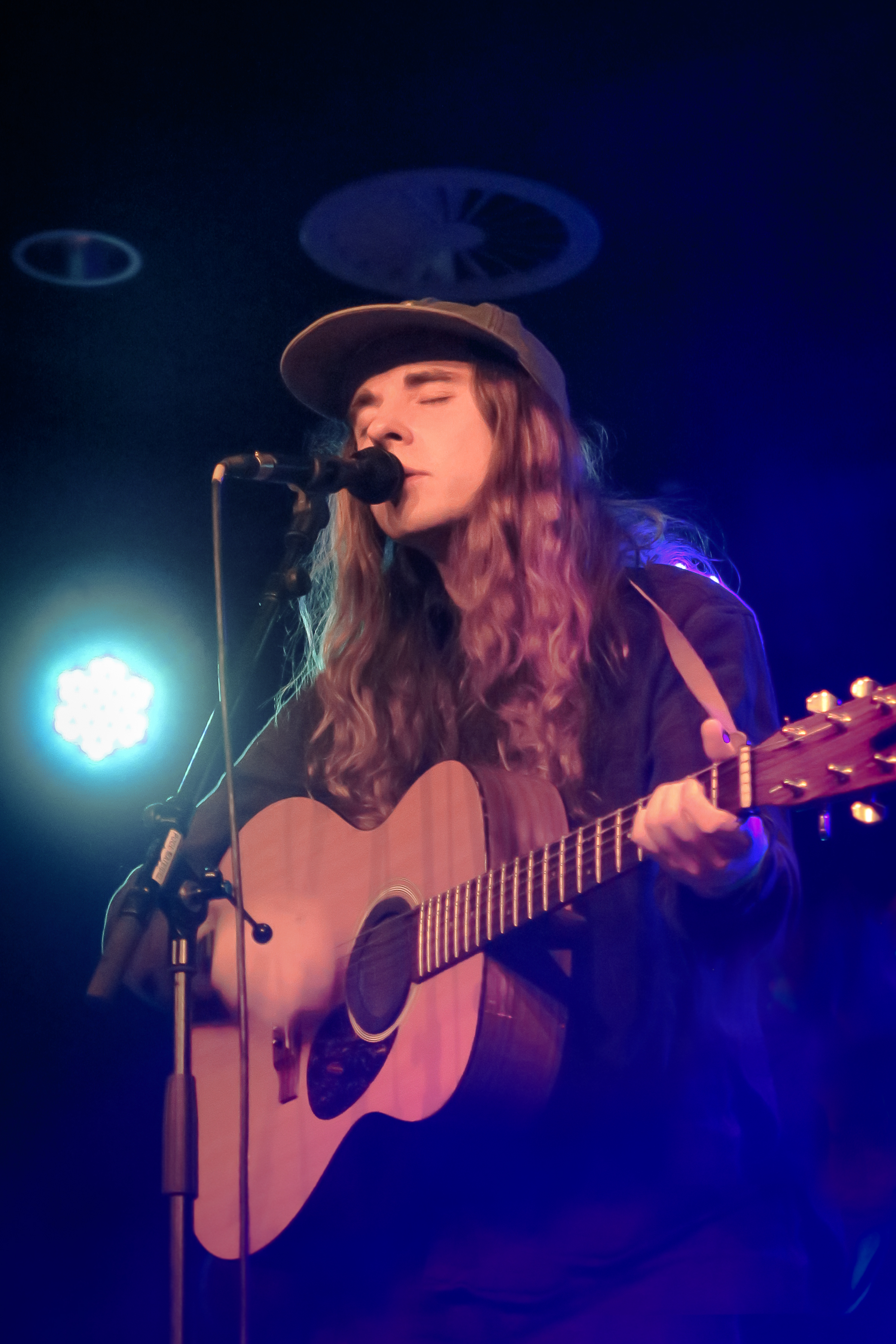 Andy Shauf (Namur, Belgium - october 2018)